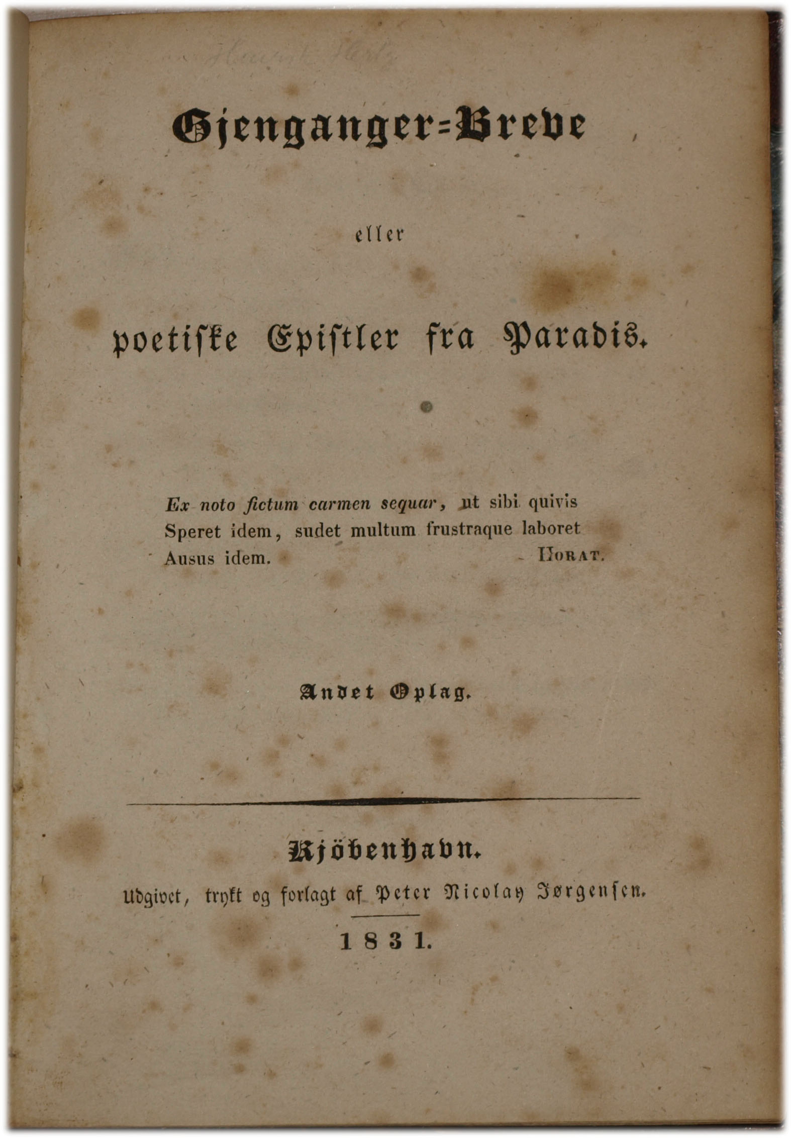 Gjenganger-Breve af Henrik Hertz fra 1831